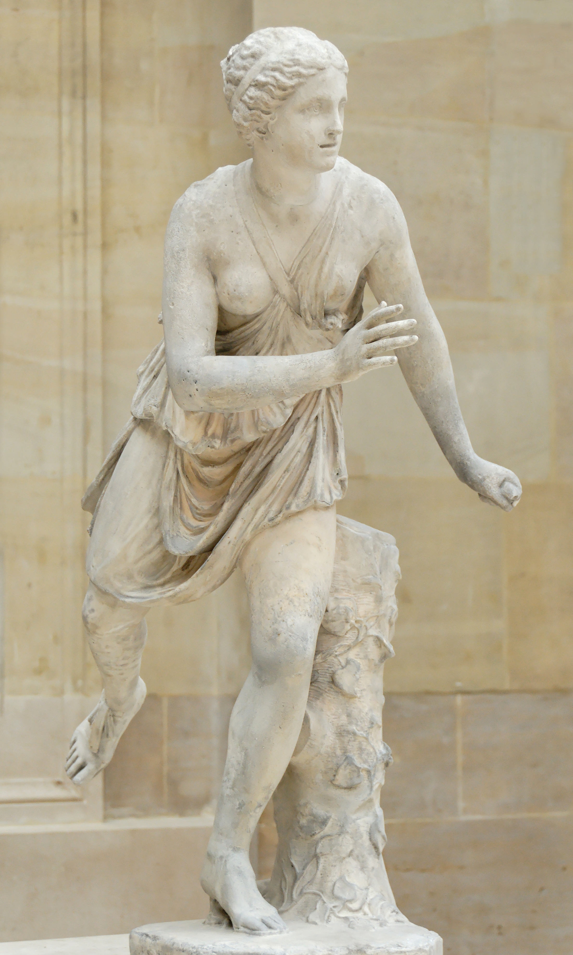 Atalanta. Marble, 1703-1705. Copy of Ma 52, a Roman copy after a Hellenistic original which was then in the collections of Mazarin. Commissioned for the decoration of the park of Marly, transferred in 1798 to the Tuileries Gardens.